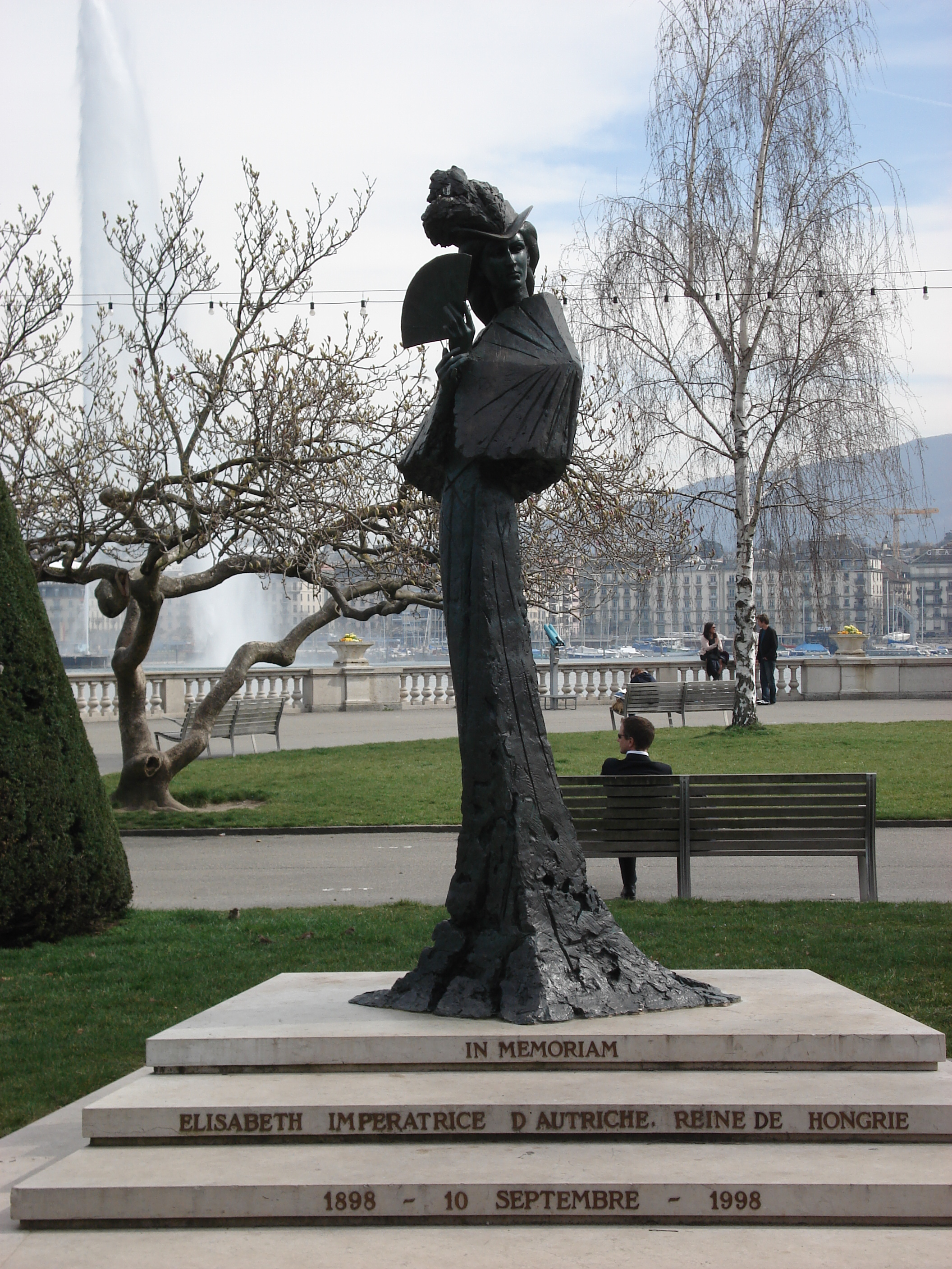 Statue of Elisabeth Amalie Eugenie von Wittelsbach in Geneva